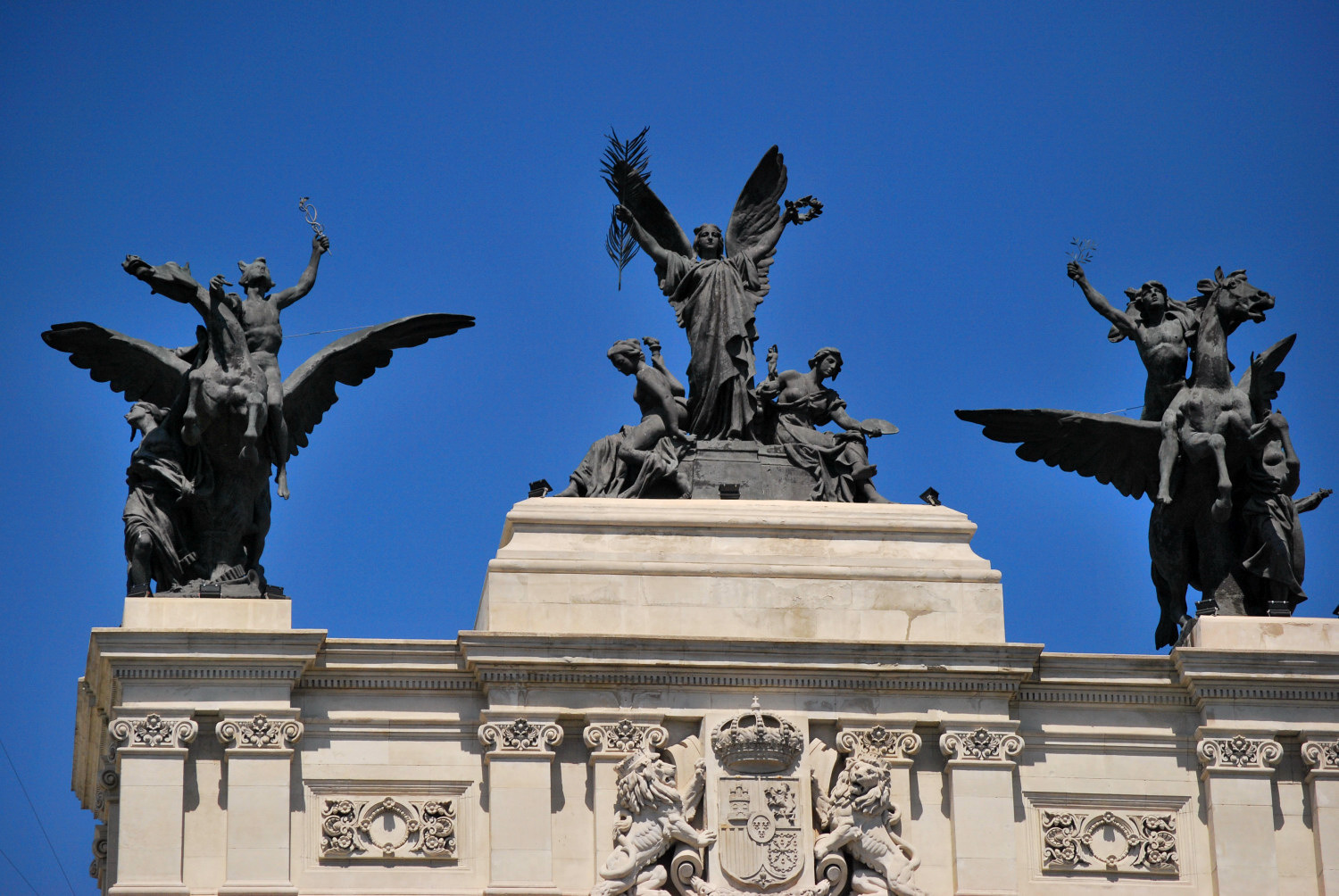 La Gloria y los Pegasos in Madrid (Spain).